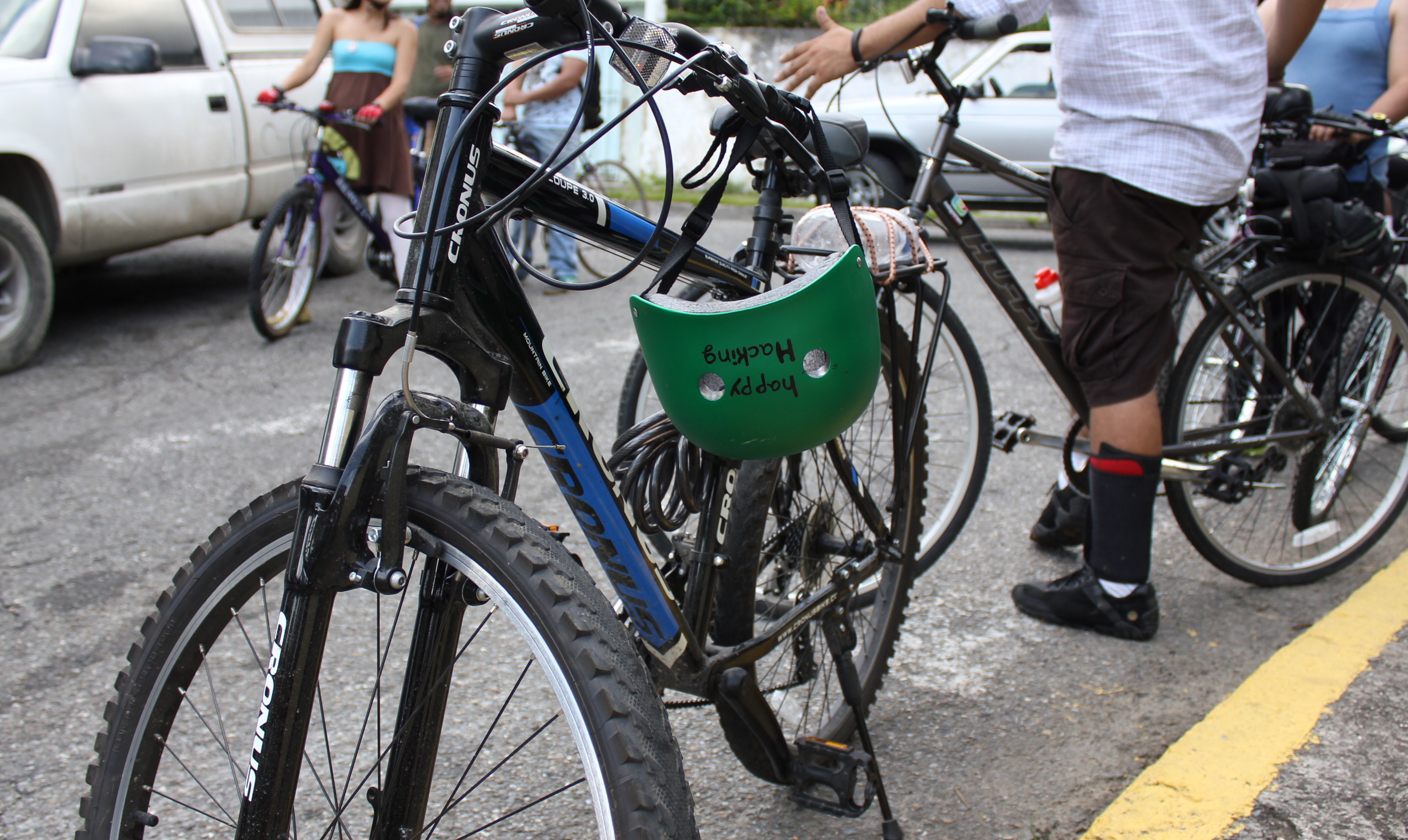 Bicycle Happy Hacking, in a broad sense the term hacker or Hacking can be associated with social movements that promote changes in lifestyles.